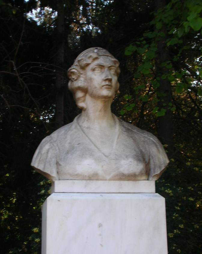 monument of Mantw Mayrogenous in Athens own photo, Gepsimos